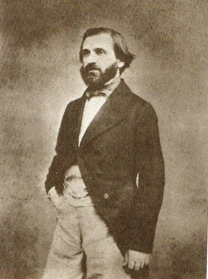 Photo of Giuseppe Verdi 1844